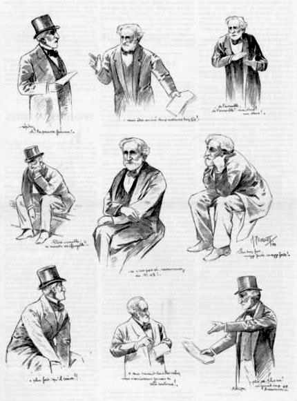 Giuseppe Verdi directing the rehearsals of Falstaff. Sketches from the magazine L'Univers illustré (1894).